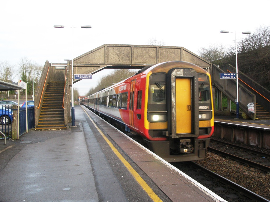 South West Trains' 159004 arrriving at Gillingham station in Dorset, England, with a train from London Waterloo to Exeter.